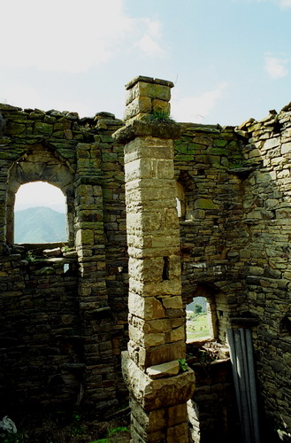 Inner pillar in Haskali residential tower